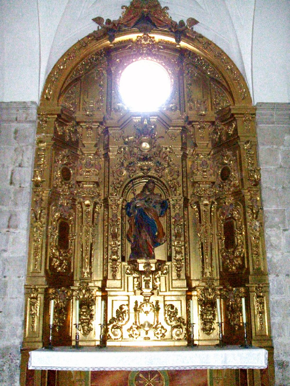 Retablo barroco de la Capilla de San José de la Catedral de Valladolid (Castilla y León, España)